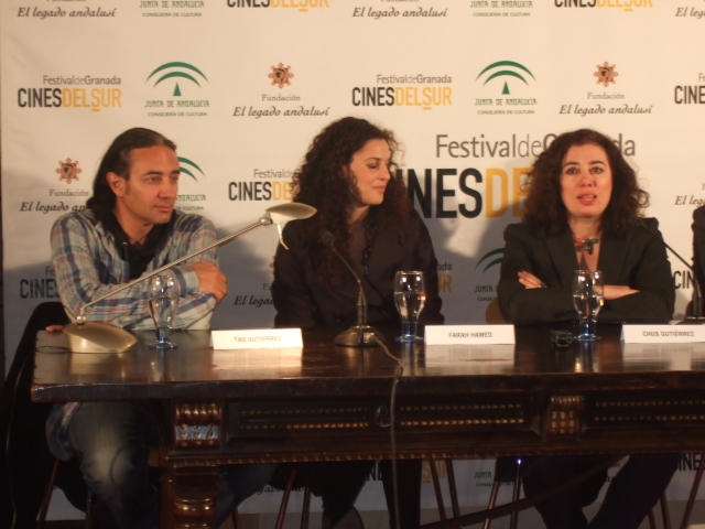 Press conference for Return to Hansala. Music: Tao Gutiérrez, protagonist: Farah Hamed, directing and screenwriting: Chus Gutiérrez